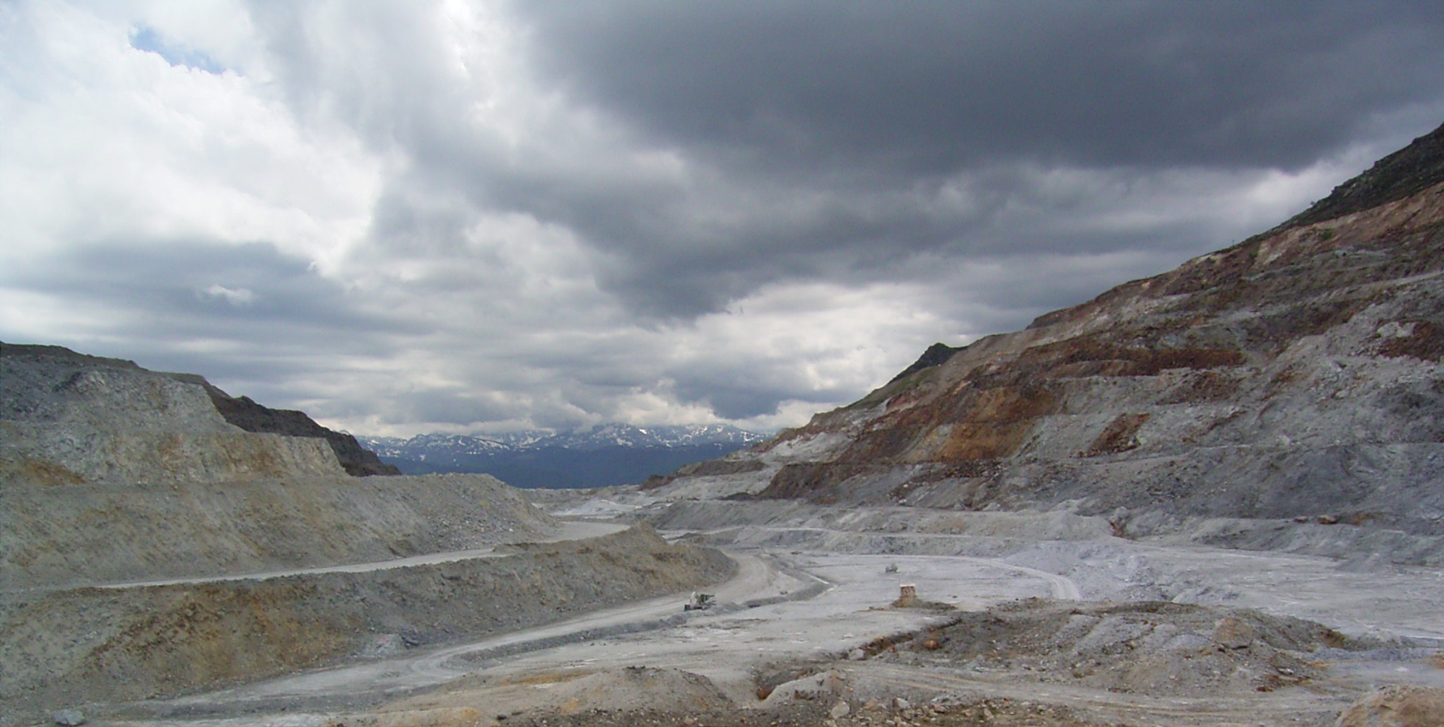 Talc-pit of Trimouns, Luzenac, France